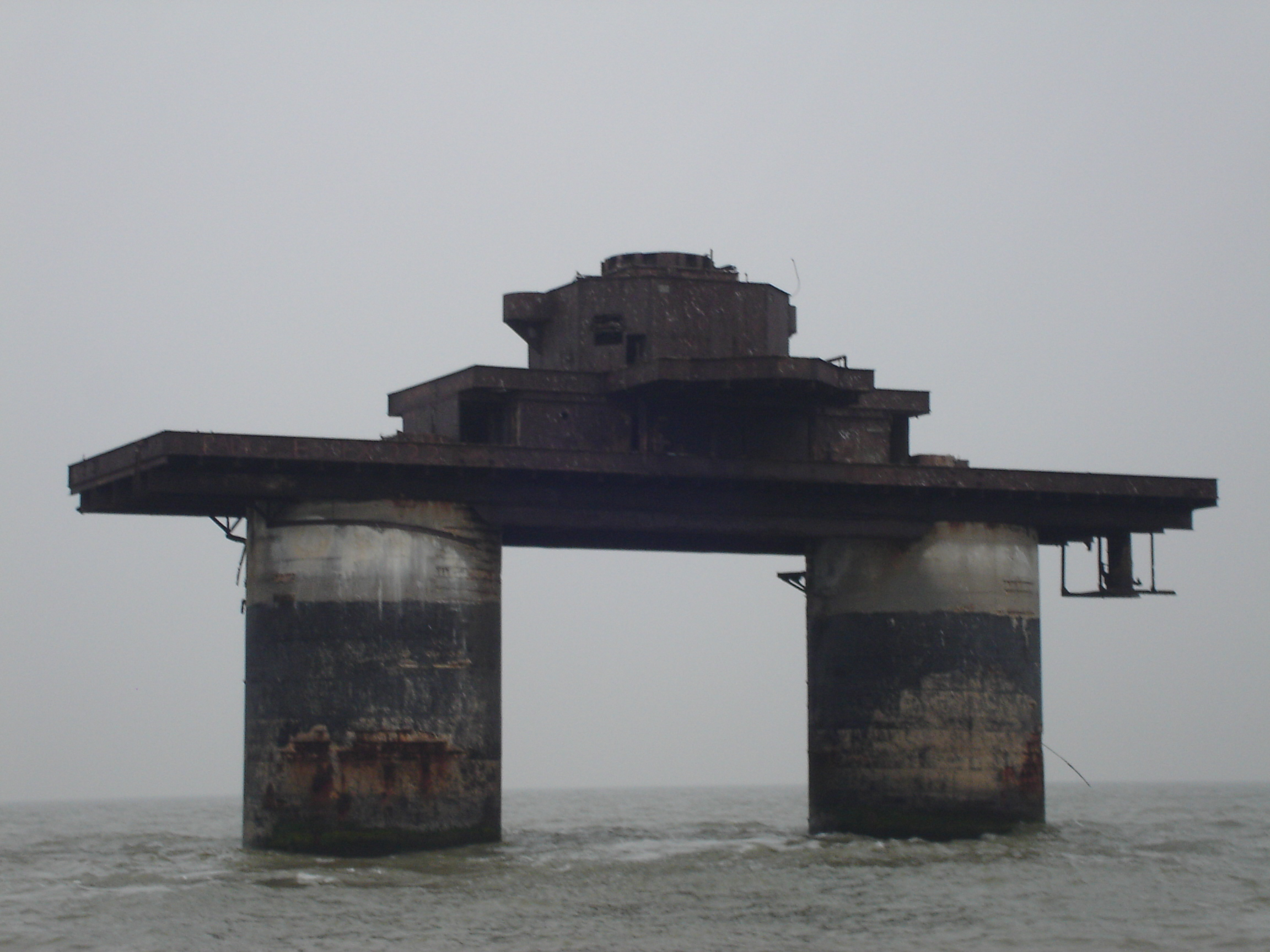 "Knock John", a Maunsell Navy Fort located in the Thames Estuary, off the coast of Herne Bay. Taken from a boat.